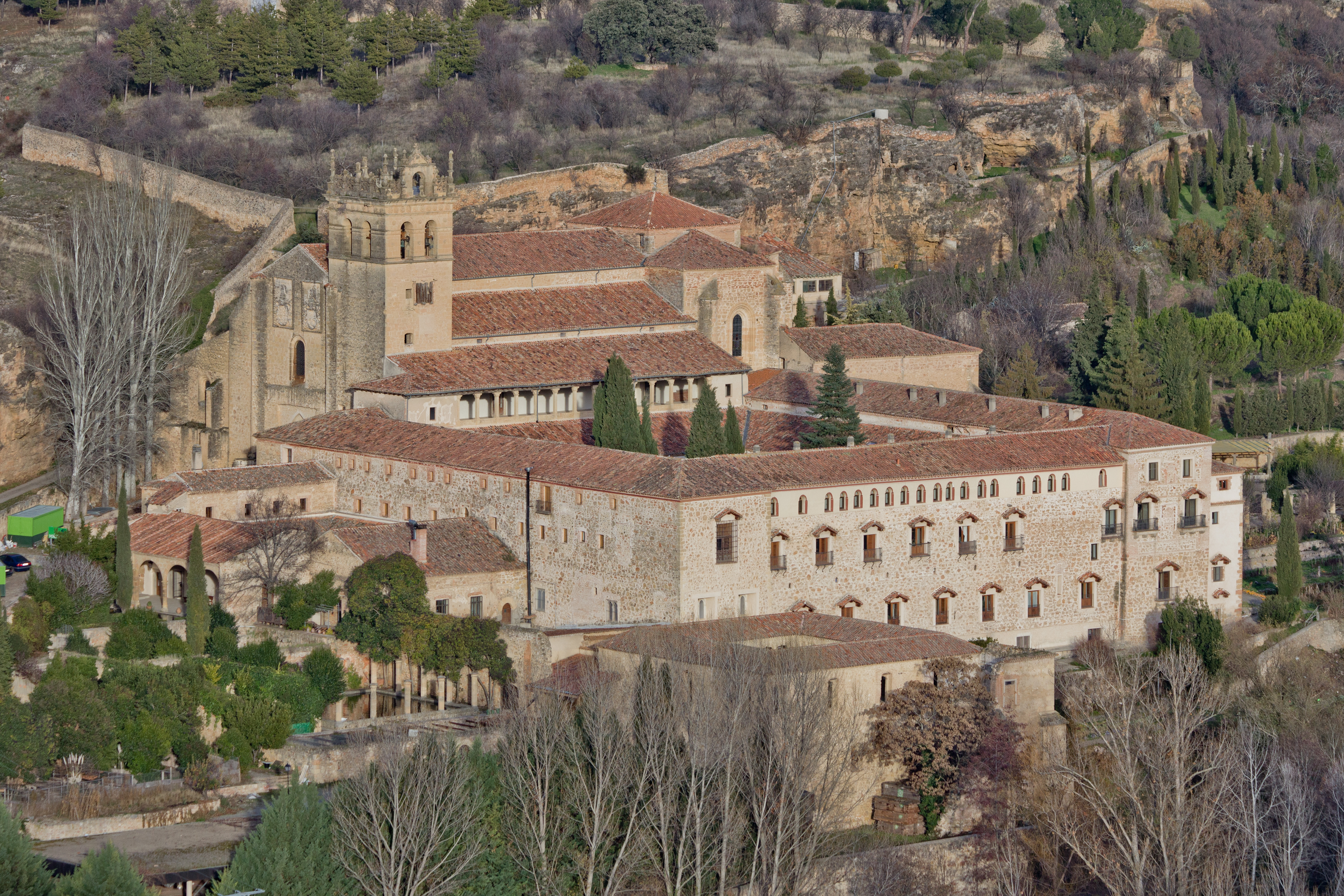 Monastery of Saint Mary of Parral, Segovia, Spain.